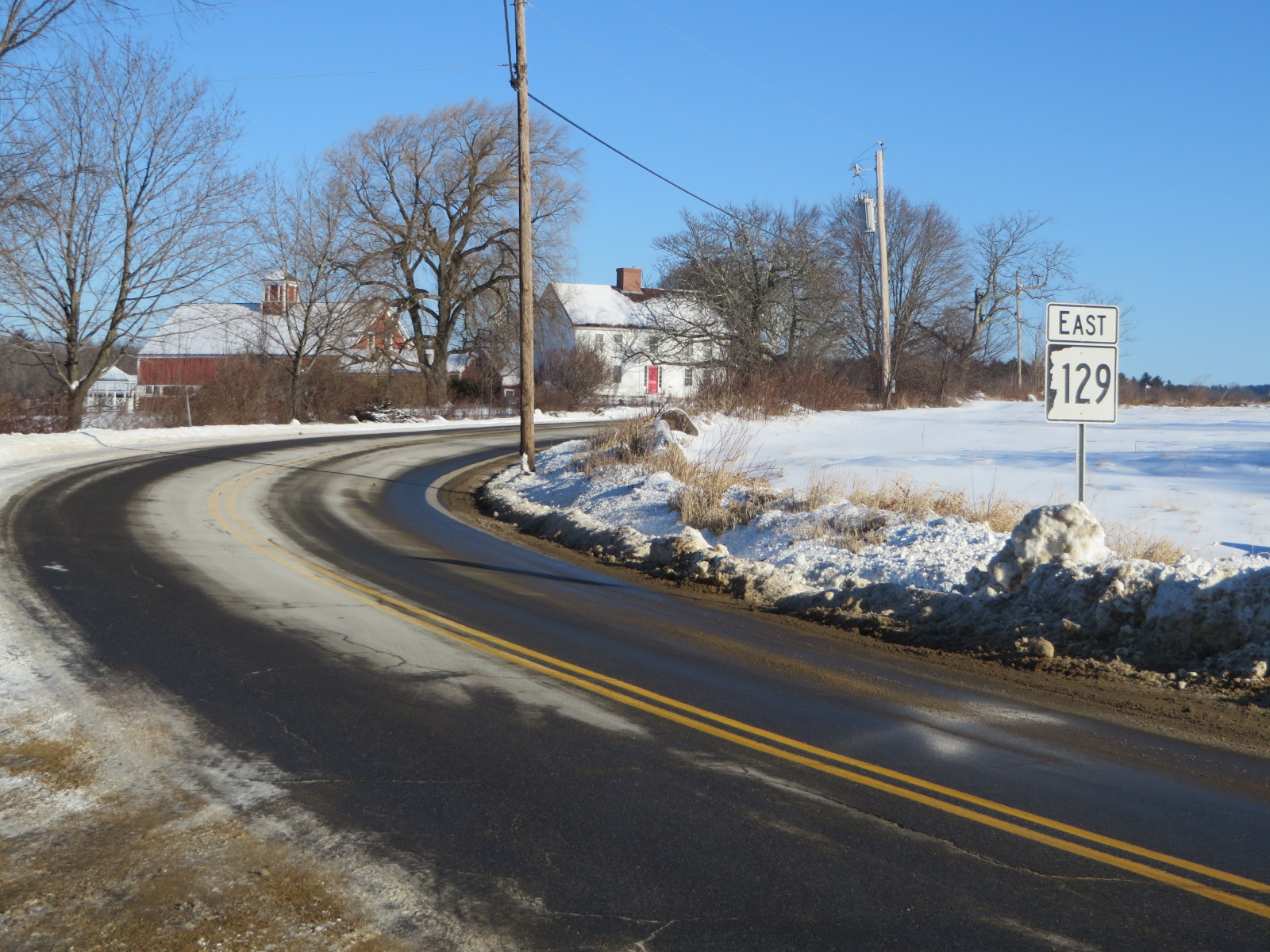 New Hampshire Route 129 in Loudon, January 2015.